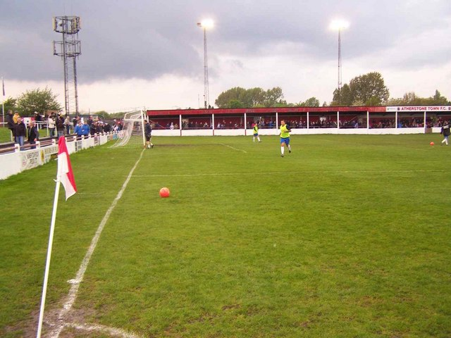 Atherstone Town FC. Reformed as Atherstone Town in 2004, the club was originally called Atherstone United. The players are warming up for the Southern League, Midland Division play-off semi-final against Chasetown.